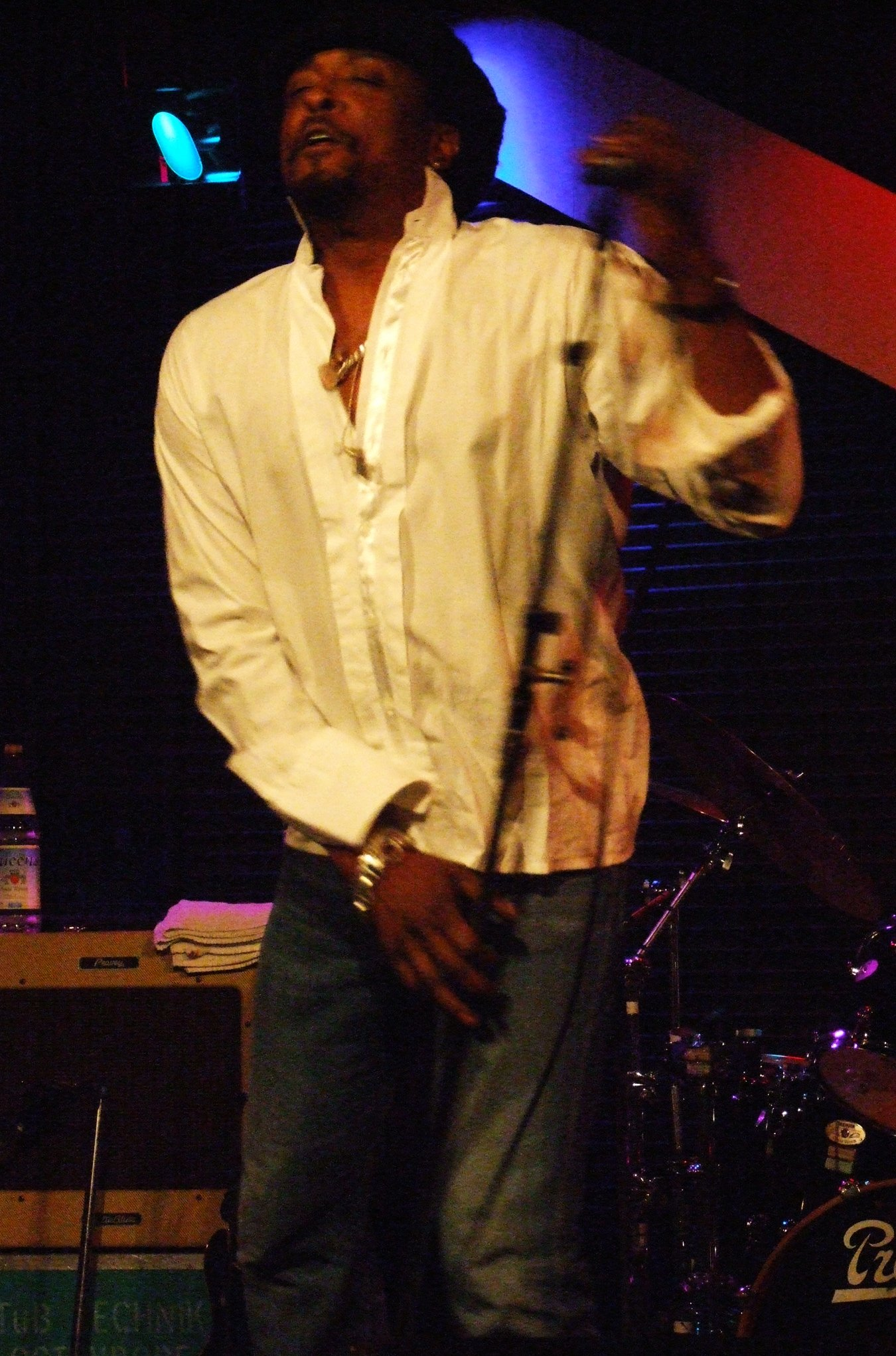 Bernard Fowler backing vocalist for Mick Jagger and the Rolling Stones